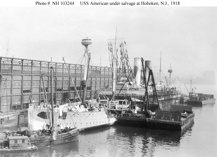 USS America (1905) under salvage at Hoboken, New Jersey. She accidentally sank at her pier on 15 October 1918.